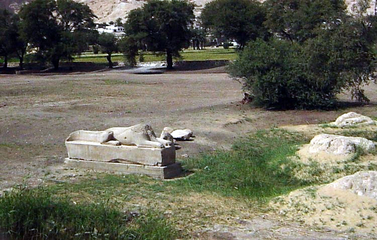 Own photo, taken April 2004